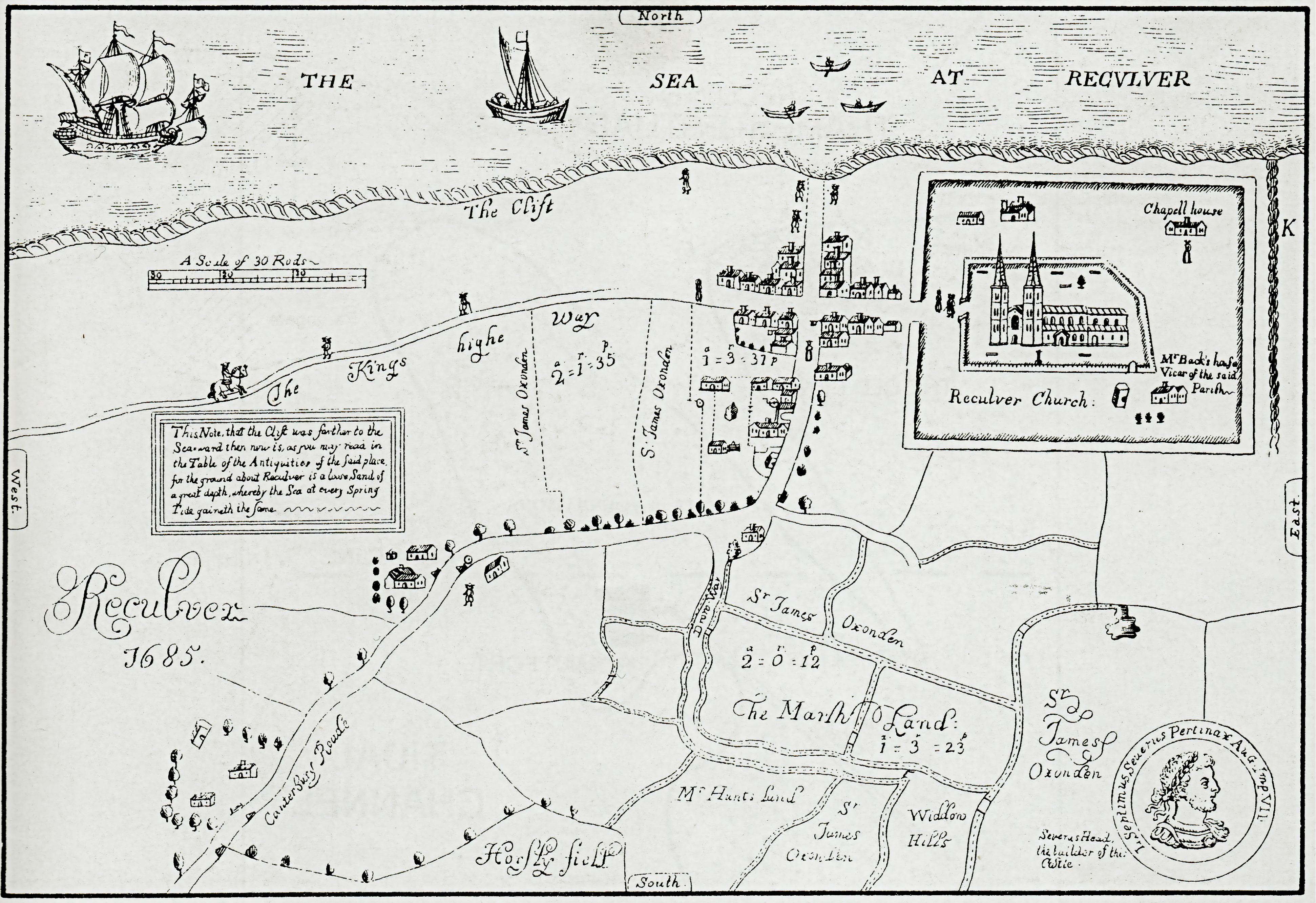 1685 estate map of Reculver by Thomas Hill: it appears in Charles Roach Smith's The Antiquities of Richborough, Reculver, and Lymne of 1850 between pp. 192–193, and is described on p. 193.